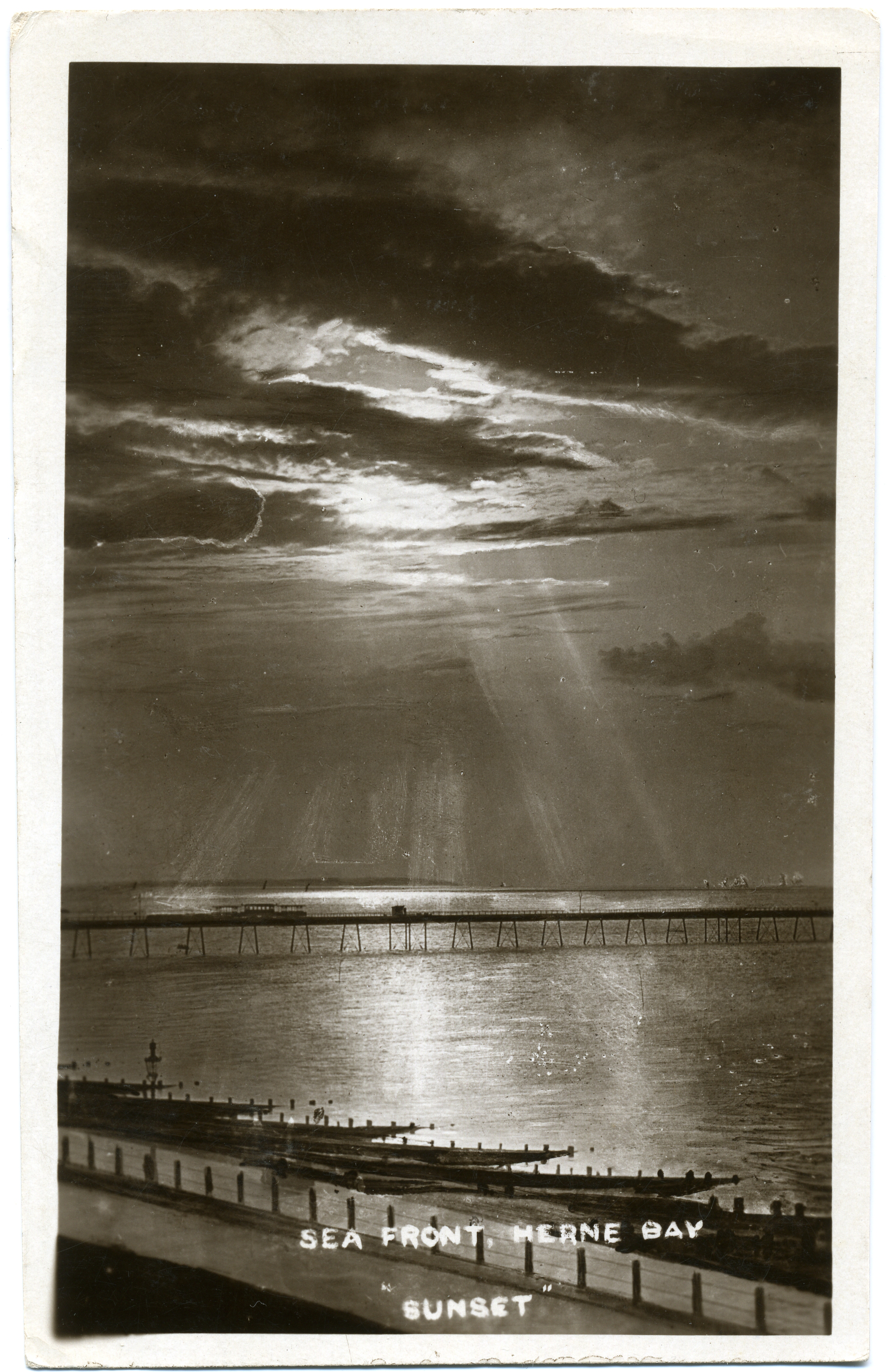 Postcard photo of sunset over Herne Bay Pier, postmarked 1913. The trolley can be seen between two shelters on Herne Bay's 3rd pier, and three sailing boats are behind the pier. The photographer was Fred C. Palmer of Tower Studio, Herne Bay, Kent, who is believed to have died 1936-1939. Border The remaining border of this image is important for researchers of this photographer. Some photographers trimmed their images more than others, and Palmer has a reputation for producing smaller postcards than other early 20th century UK photographers. He took his own photos, developed them in-house onto postcard-backed photographic paper and trimmed them himself. It is worth adding that during hand-developing the border is actively masked with equipment which both crops the picture and causes the white frame or border to appear on the paper. This frame is part of the design and is one of the reasons why the quality of Palmer's work is so interesting, and why there is an article and category for him on English Wiki. Researchers need to see exactly where the edge of the postcard is. Thank you for taking the time to read this.